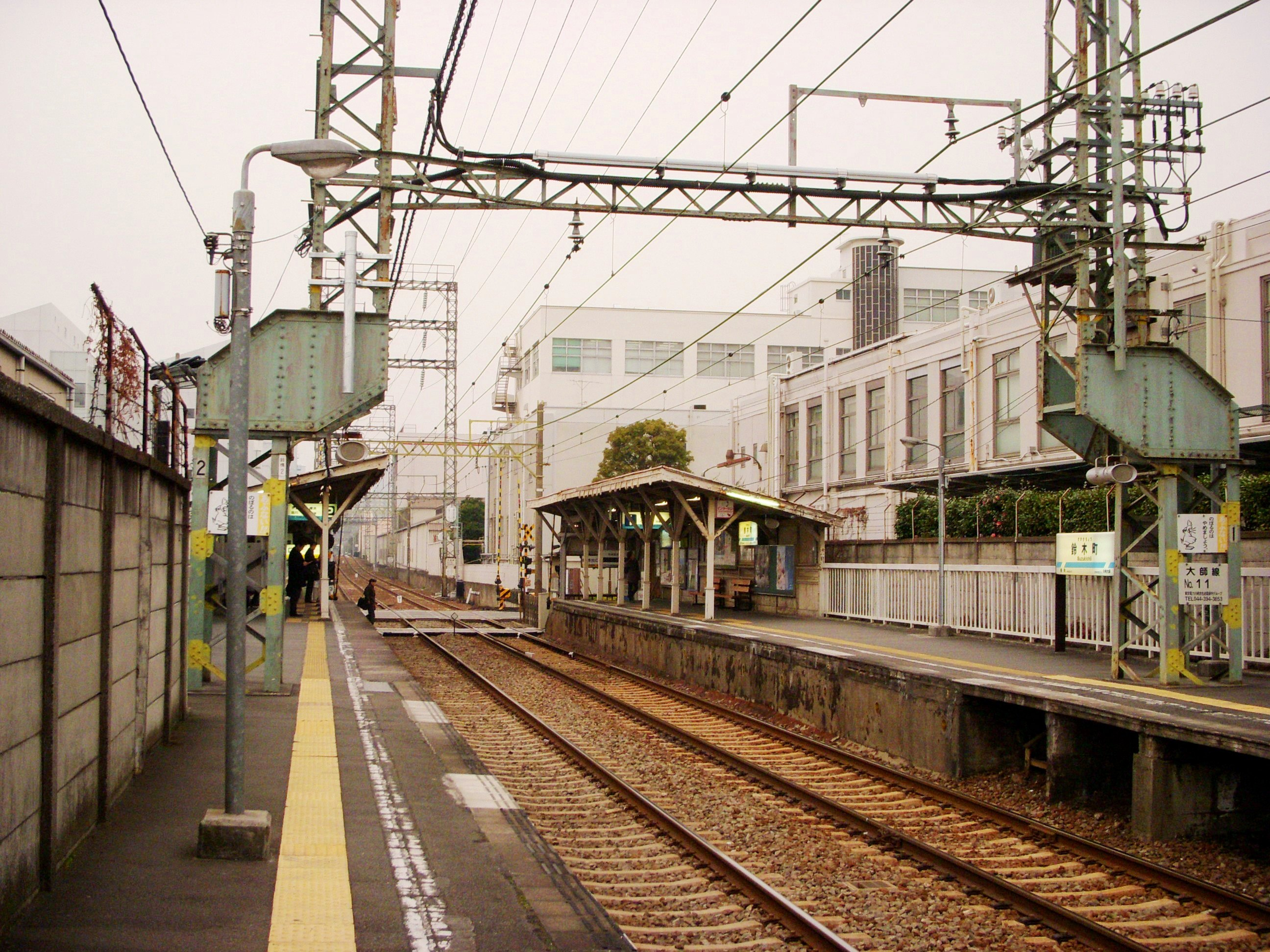 Keikyu Keikyu Daishi Line,Keikyu-Suzukichō Station platform (Kanagawa, Japan)